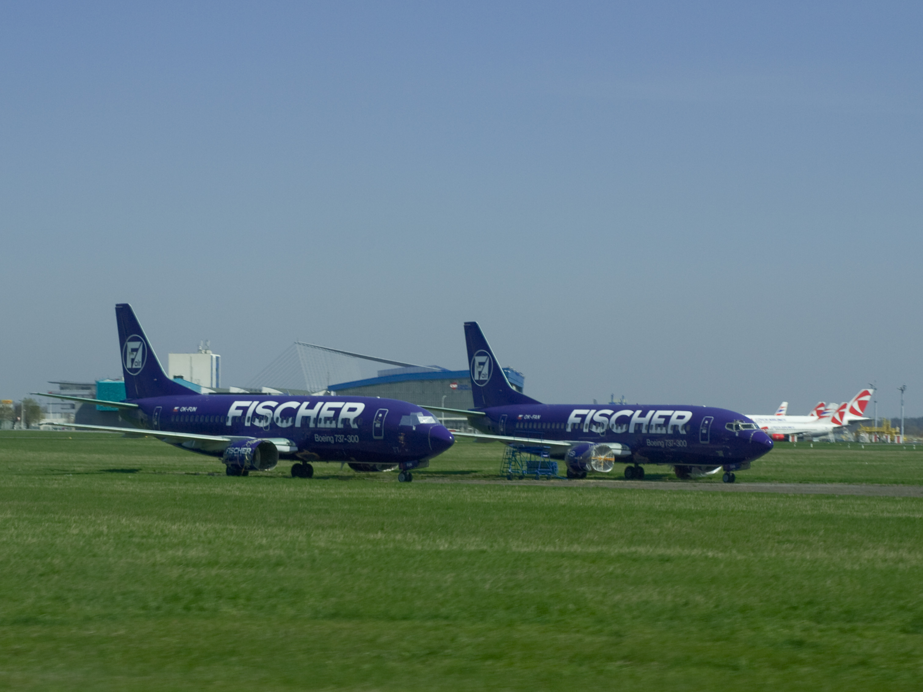 Fisher aircrafts OK-FAN and OK-FUN, Open Doors Day because of closed air space above the Czech Republic